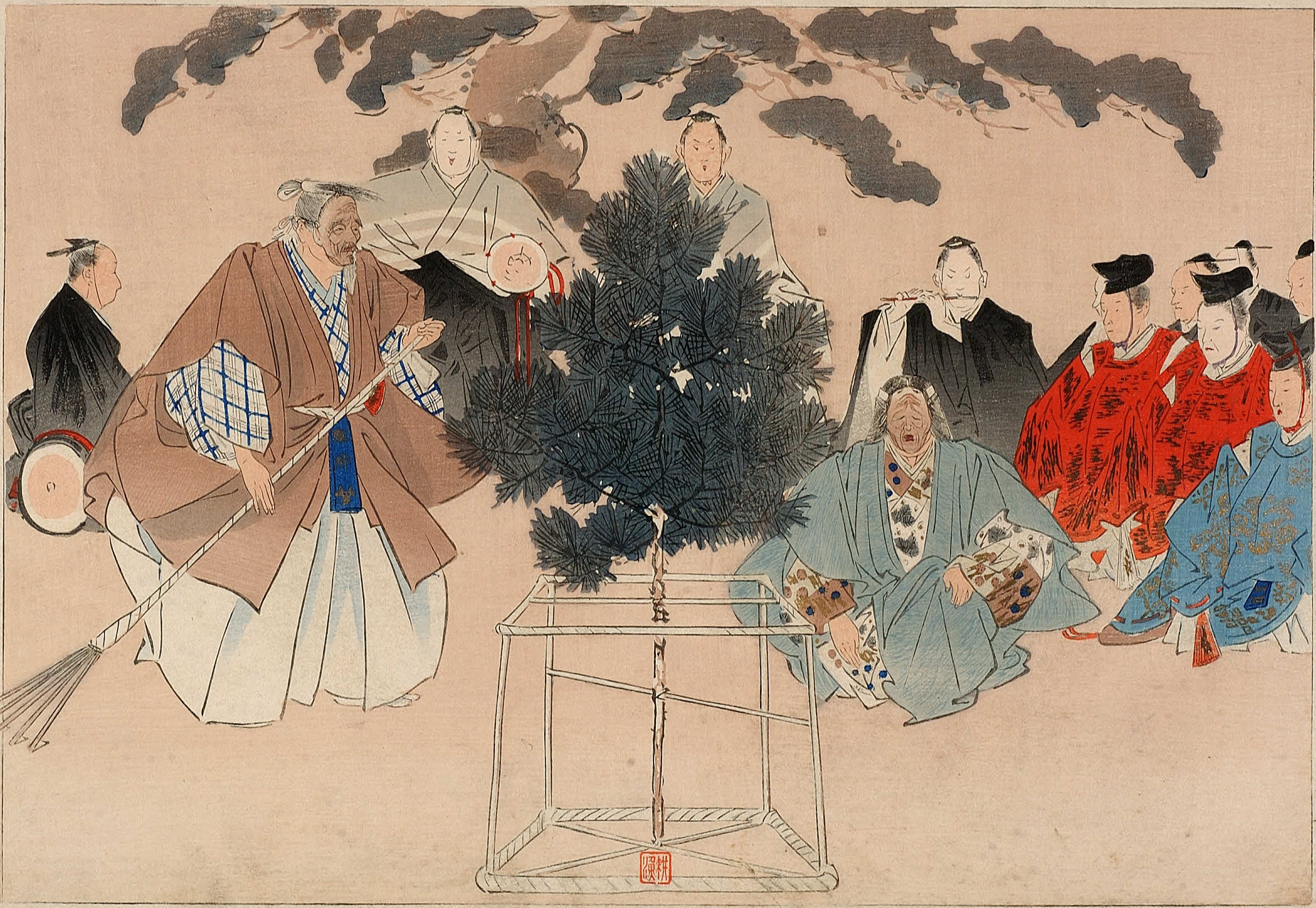 Tsukioka Kôgyo: Scenefrom Nô-play "Takasago"